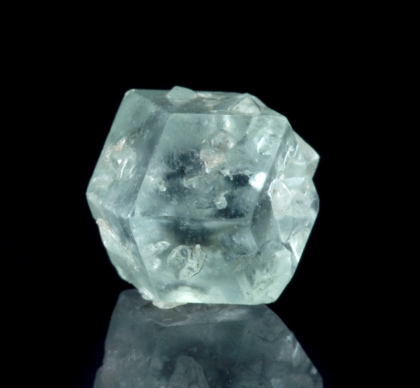 Boracite Locality: Lüneburg Kalkberg, Lower Saxony, Germany Size: 1.2 x 1.1 x 0.9 cm This is a remarkable and equant dodecahedron of boracite, complete-all-around, from the type locality. Good sea-foam blue/green color, good luster, and fine form. These are quite old and turn up now only in old collections. Joe Budd photos.